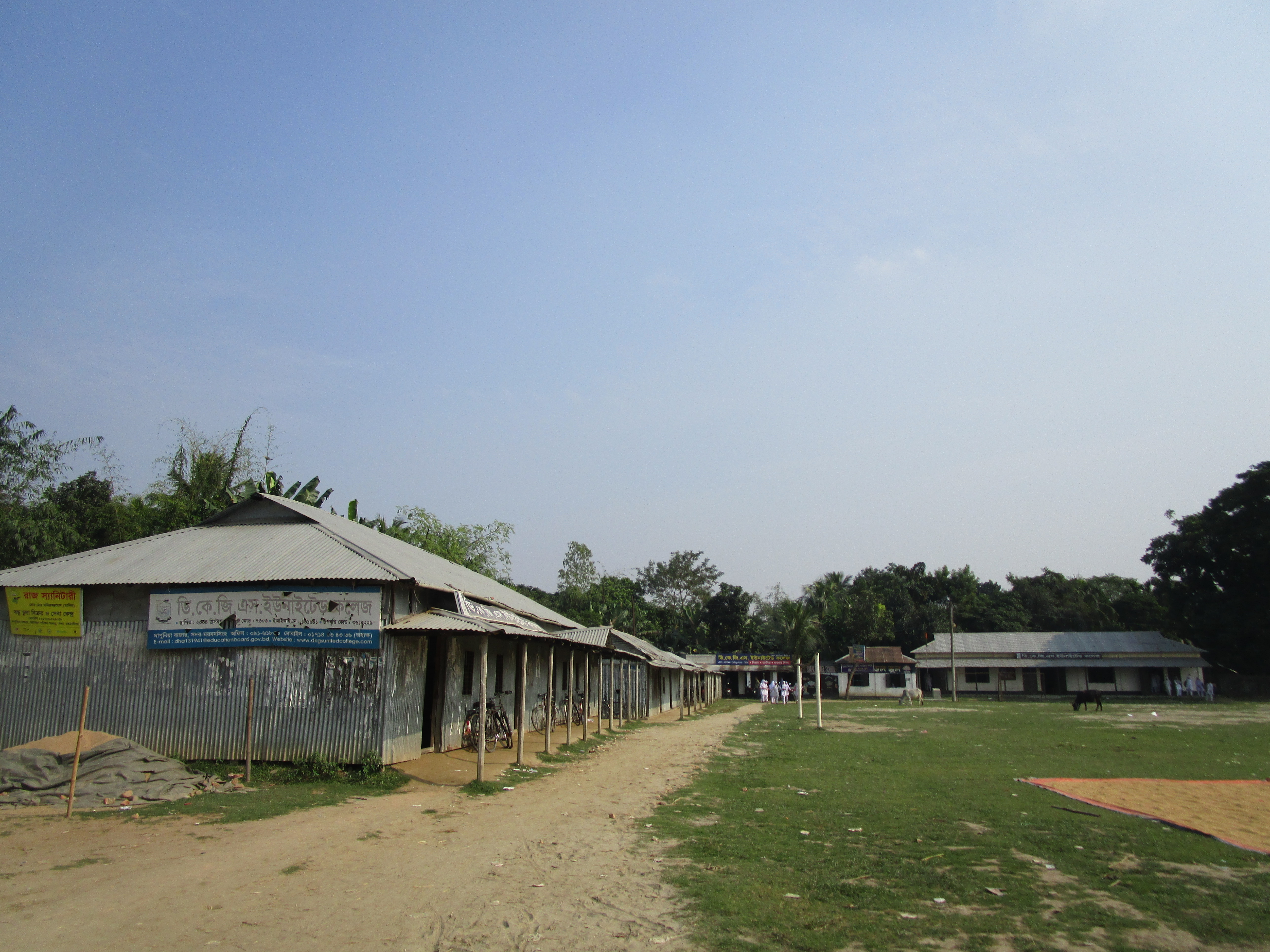 DKGS United College at Dapunia Union at Mymensingh Sadar Upazila.